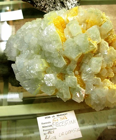 Celestina with sulfur (SeSO4), coming from the Mine La Grasta in the Province of Caltanissetta north of Delia and Sommatino.